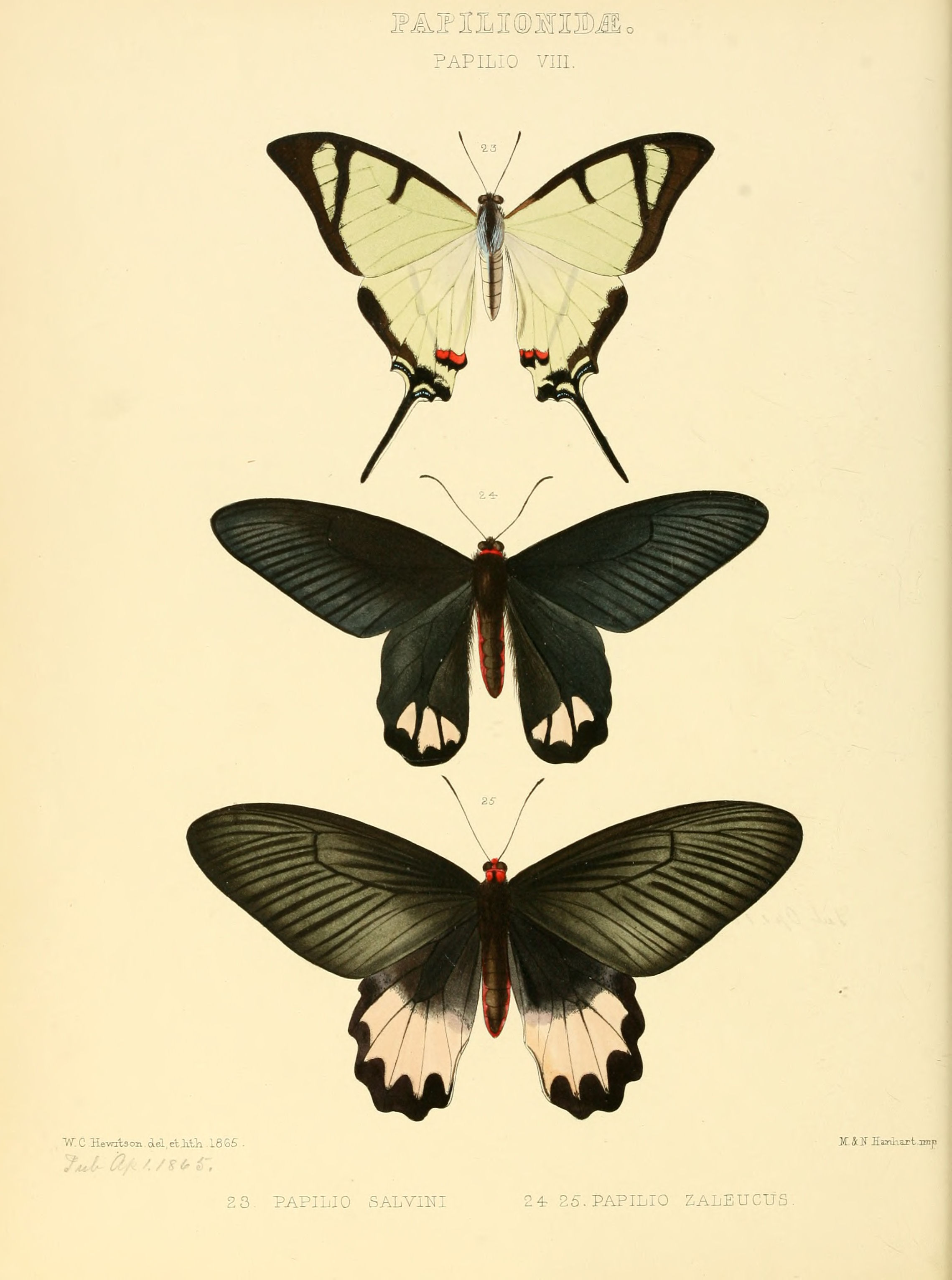 Plate: Papilio VIII Papilio salvini. Fig. 23. Accepted as Eurytides salvini (Bates, 1864). Papilio zaleucus. Figs. 24 (male), 25 (female). Accepted as Atrophaneura zaleucus (Hewitson, 1865).